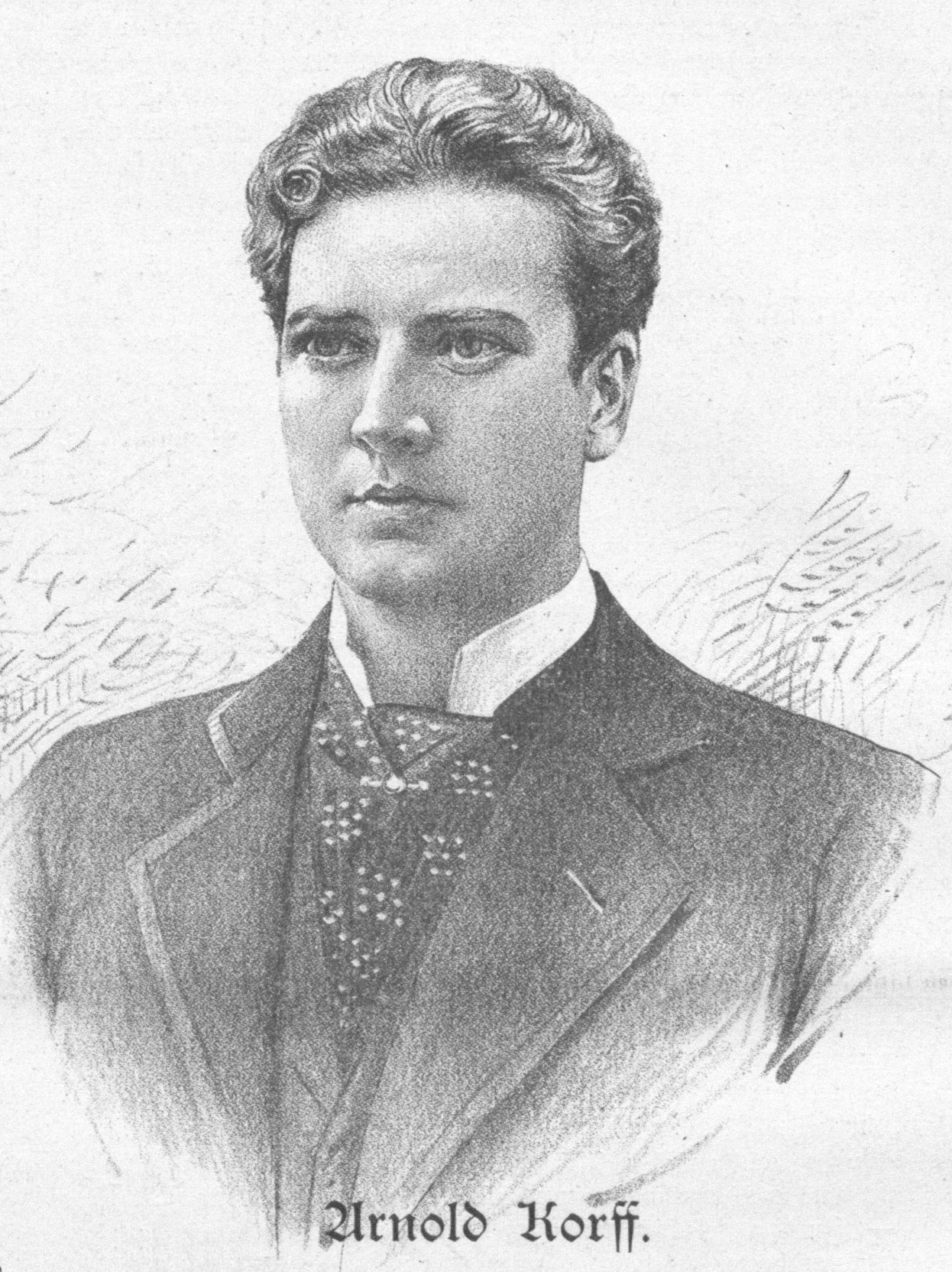 Portrait of Arnold Korff (1870-1944), Austrian-American actor.